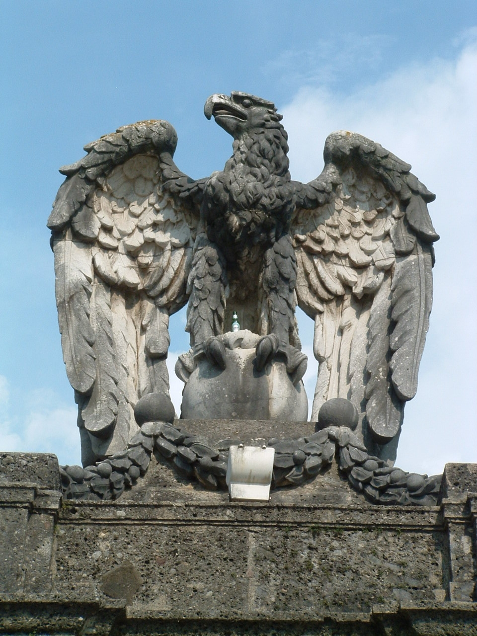 Schloss Klessheim, Eagle at entrance Photograph by Gakuro